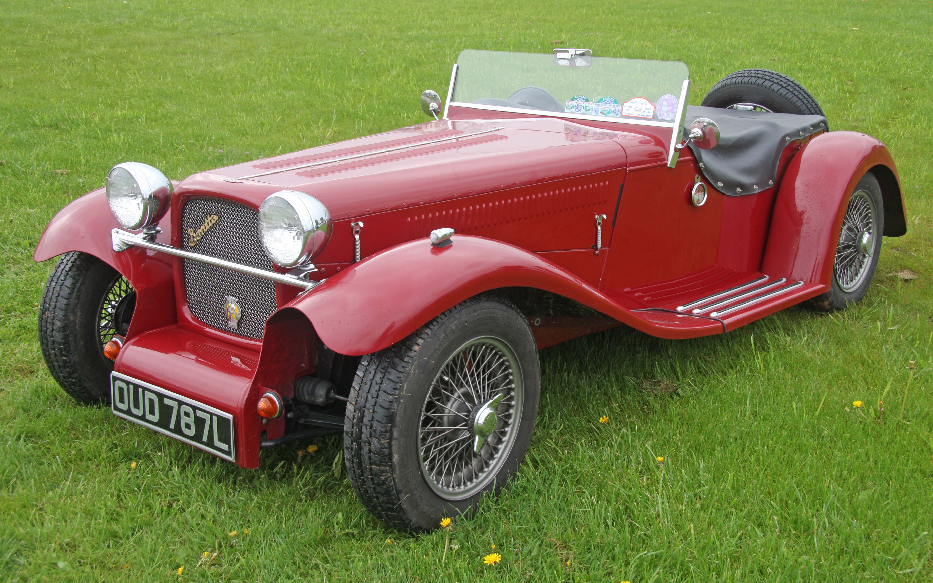 in the Owners' Club area